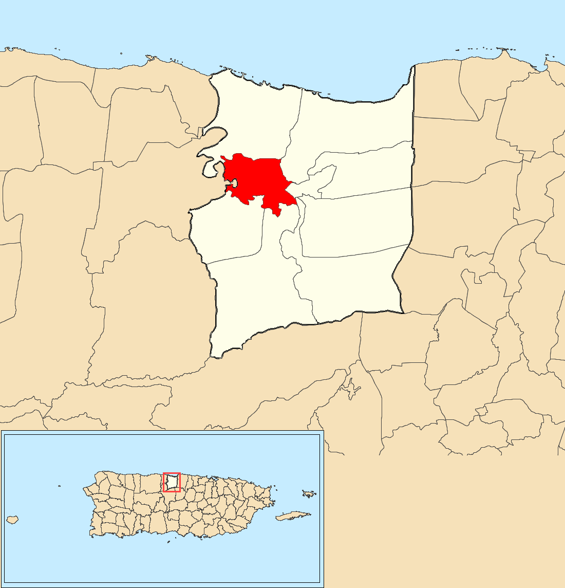 Locator map for barrio in Manatí, Puerto Rico